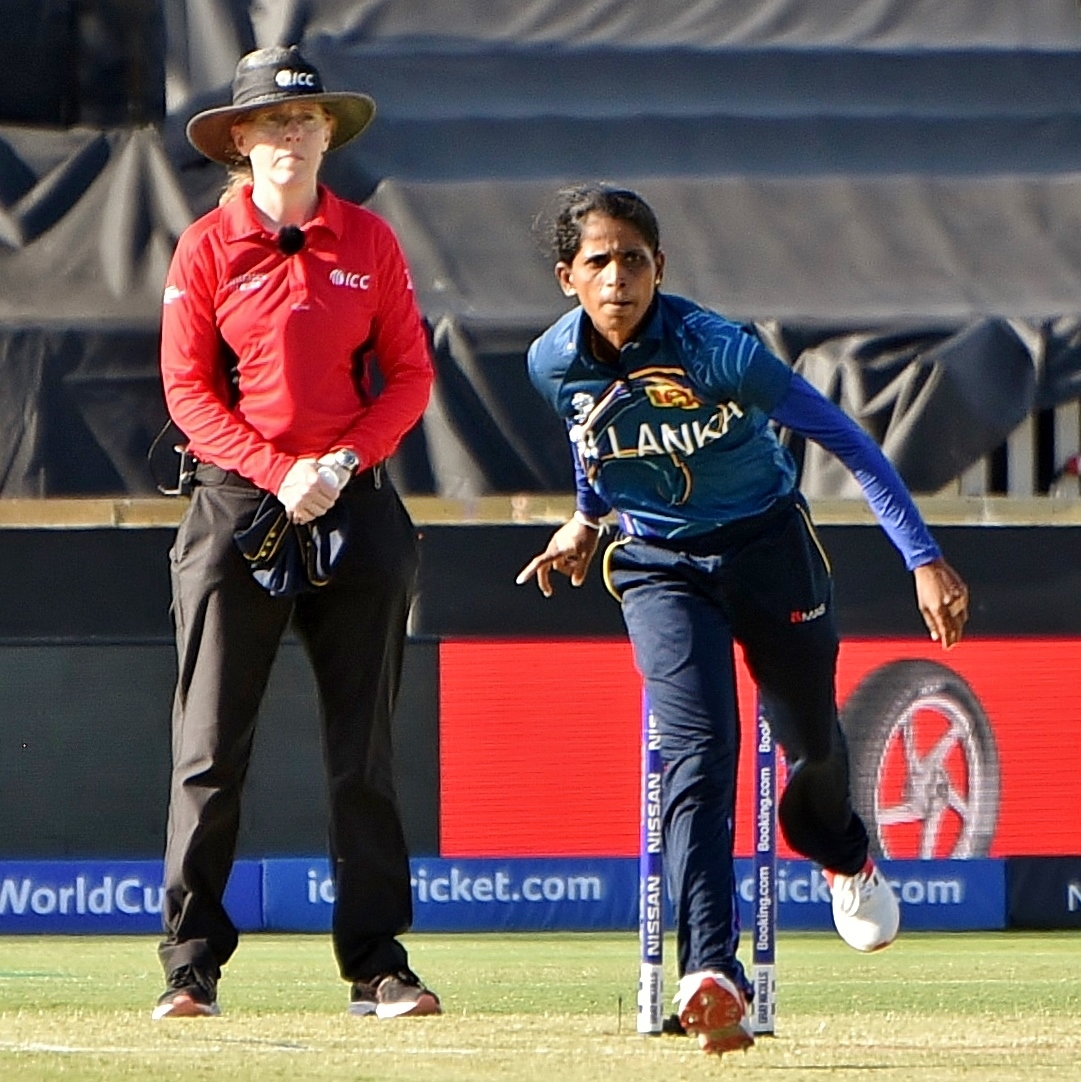 Udeshika Prabodhani bowling for Sri Lanka against Australia during their 2020 ICC Women's T20 World Cup match at the WACA Ground in Perth, Australia